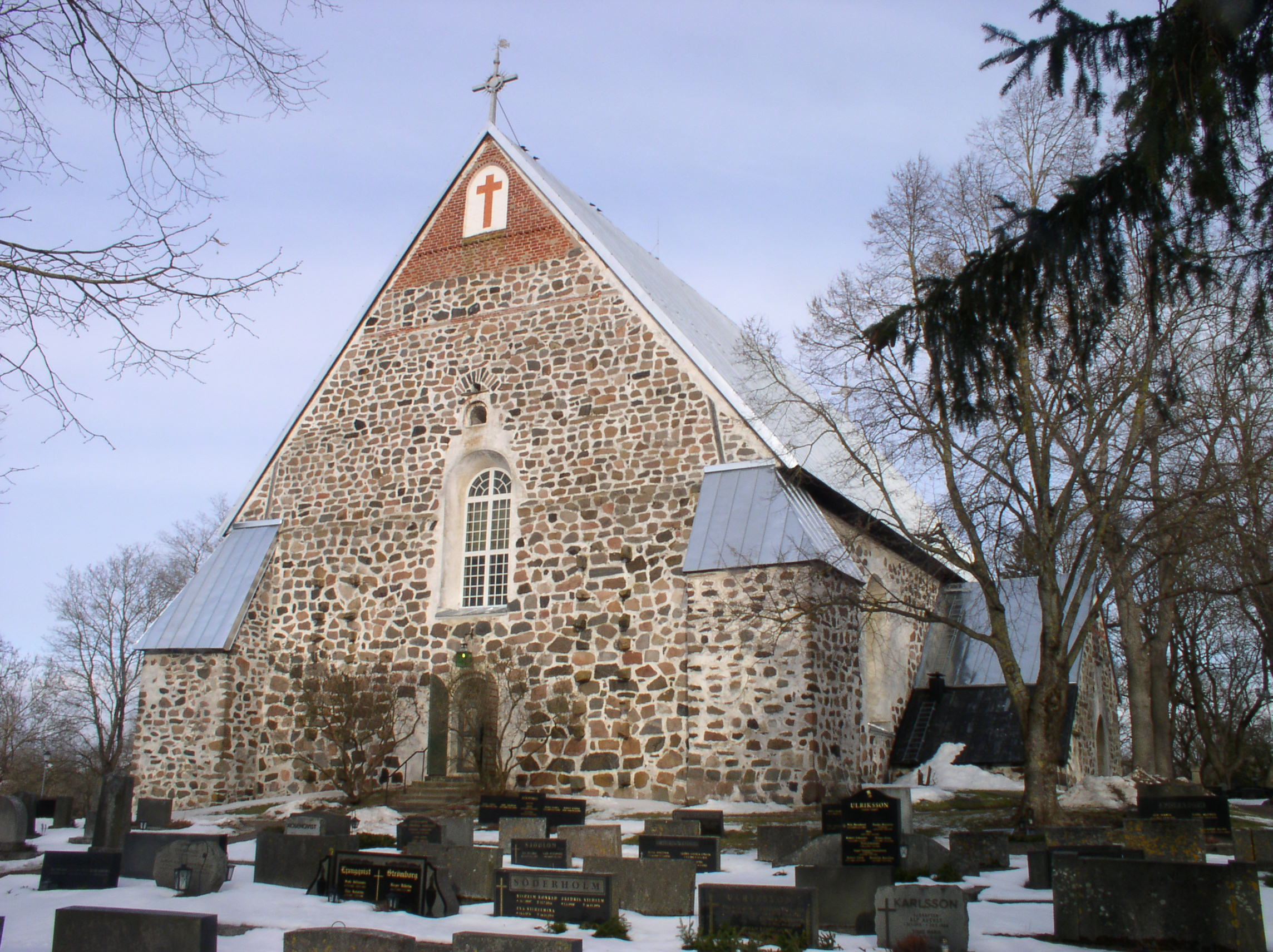 Pargas church in Väståboland (previously Pargas), Finland.